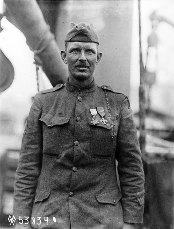 Sergeant Alvin York at his press conference on deck of USS Ohioan (ID-3280) on 22 May 1919 at New York The crossed flags in the lower left corner indicate that this is an official U.S. Army Signal Corps photograph.